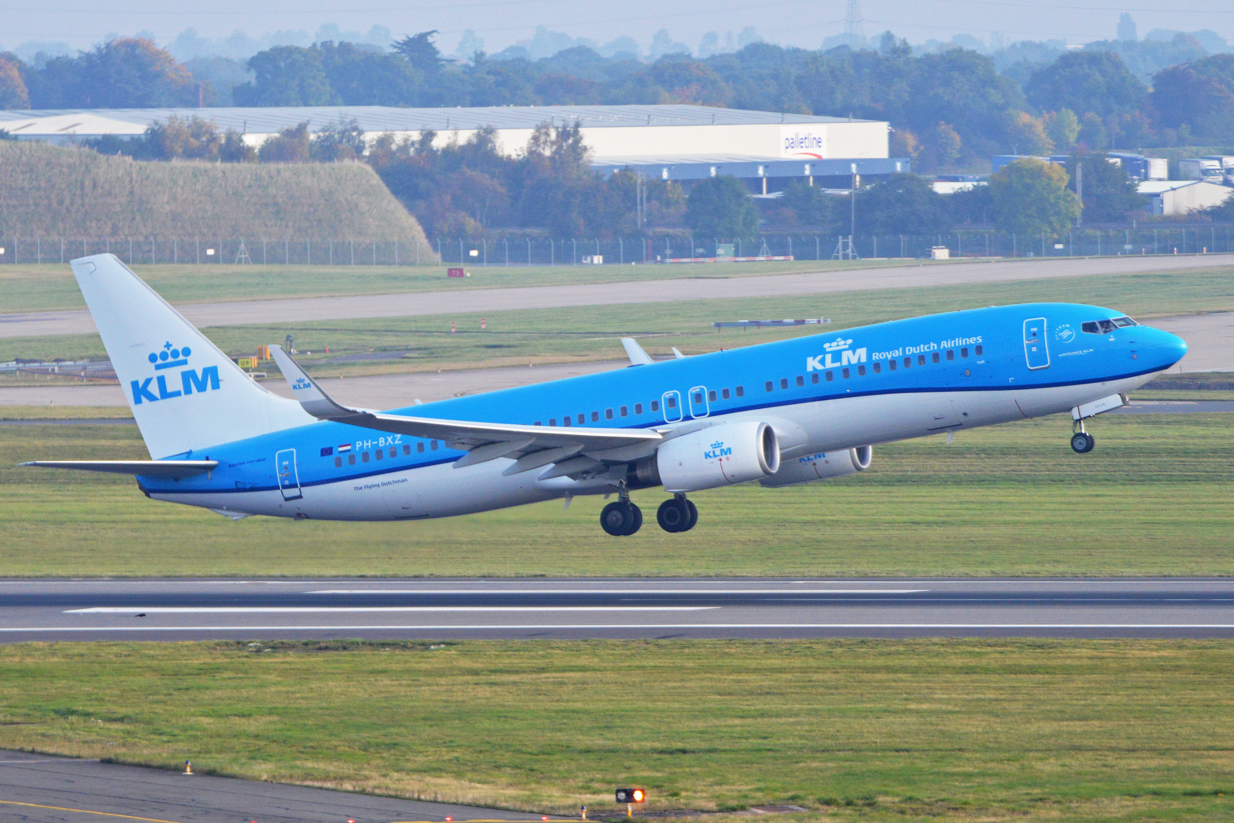 c/n 30368, l/n 2533. Built 2008. Departing on flight KL1422/84F to Amsterdam. Birmingham International Airport, UK. 11-10-2015